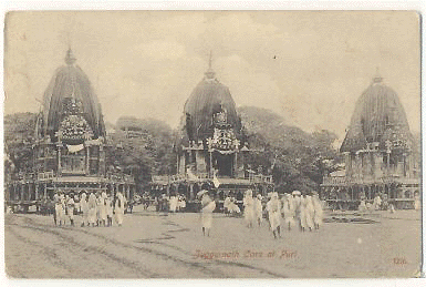 This photograph of Car Festival at Jagannath Puri was taken in year 1907 by an unknown author, appearing in various Indian publications approximately 102 years ago or more.